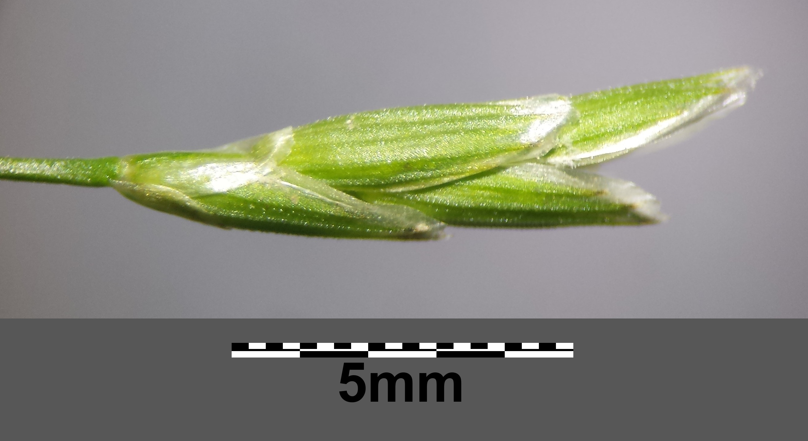 Disarticulated spikelet Taxonym: Glyceria notata ss Fischer et al. EfÖLS 2008 ISBN 978-3-85474-187-9 Location: Bergau, district Hollabrunn, Lower Austria - ca. 230 m a.s.l. Habitat: brookside